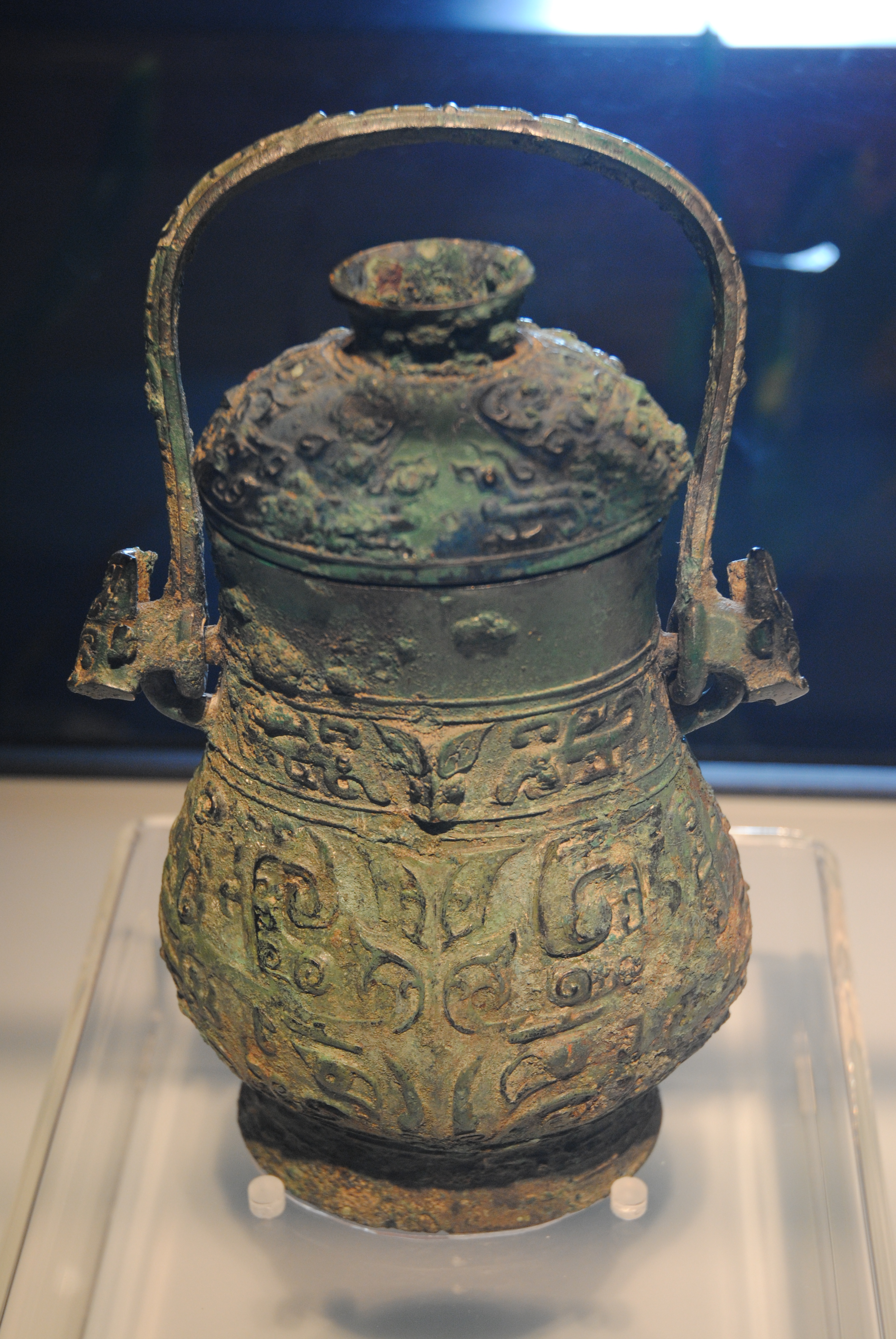 "YOU" over-top handled pot